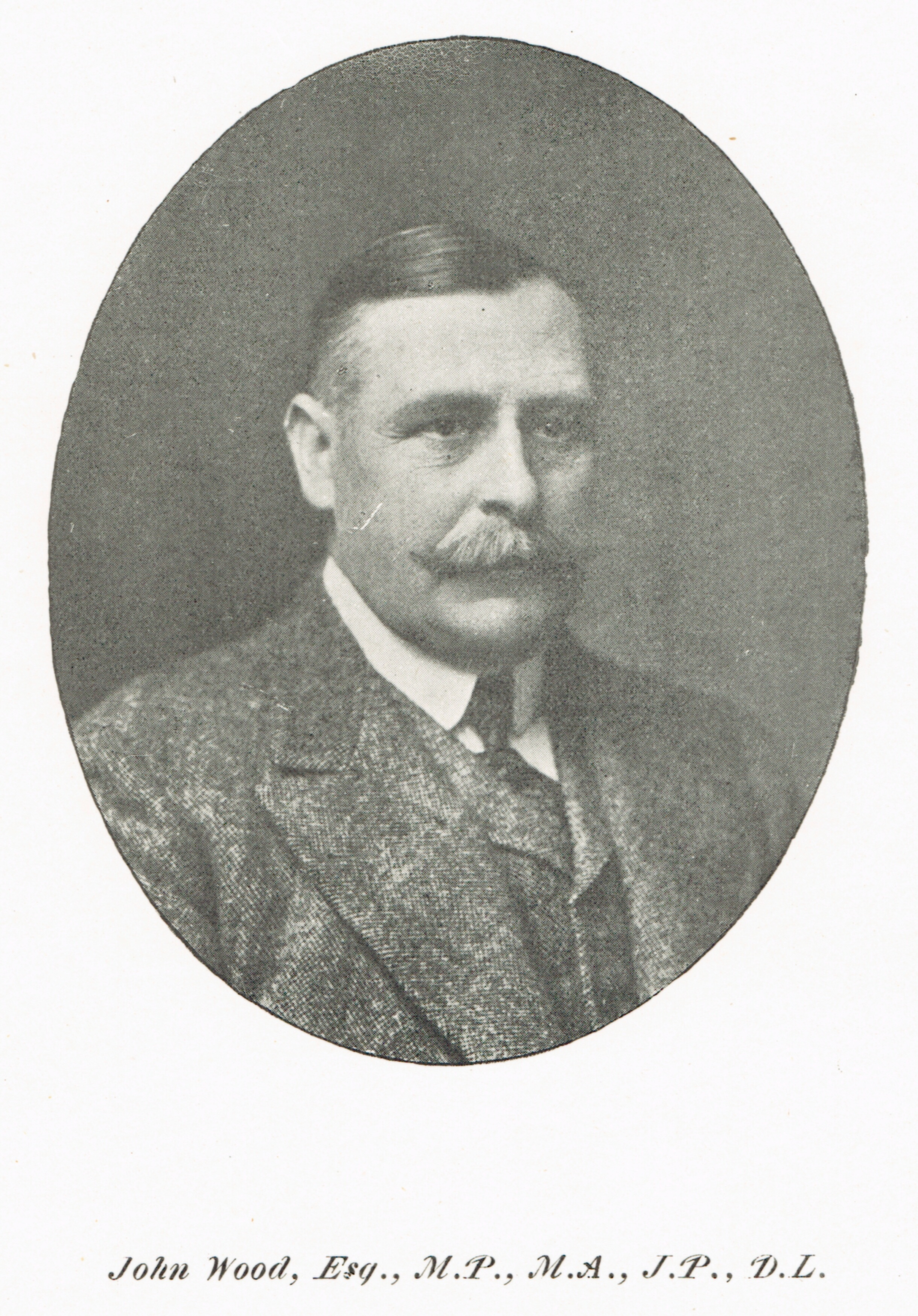 Portrait of John Wood (1857-1951), Esquire, Member of Parliament, Master of Arts, Justice of the Peace, Deputy Lieutenant for the County of Herefordshire, from the book 'Suffolk Leaders: Social and Political' by Ernest Gaskell [usually spelled Gaskill in official records (1868-1928)] published for private circulation [late 1911 or early 1912] by the Queenhithe Printing and Publishing Co. Ltd, 13 Bread Street Hill, Queen Victoria Street, London E.C.